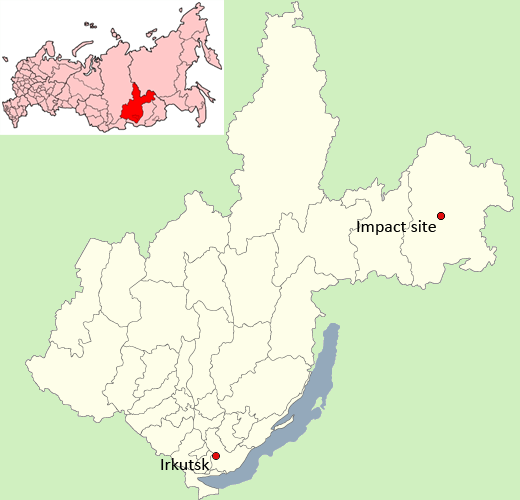 Map of Vitim bolide impact site